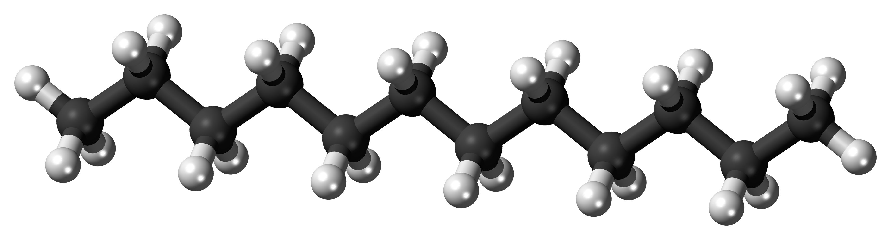 Ball-and-stick model of the dodecane molecule, an alkane with twelve carbon atoms. Color code: Carbon, C: black Hydrogen, H: white